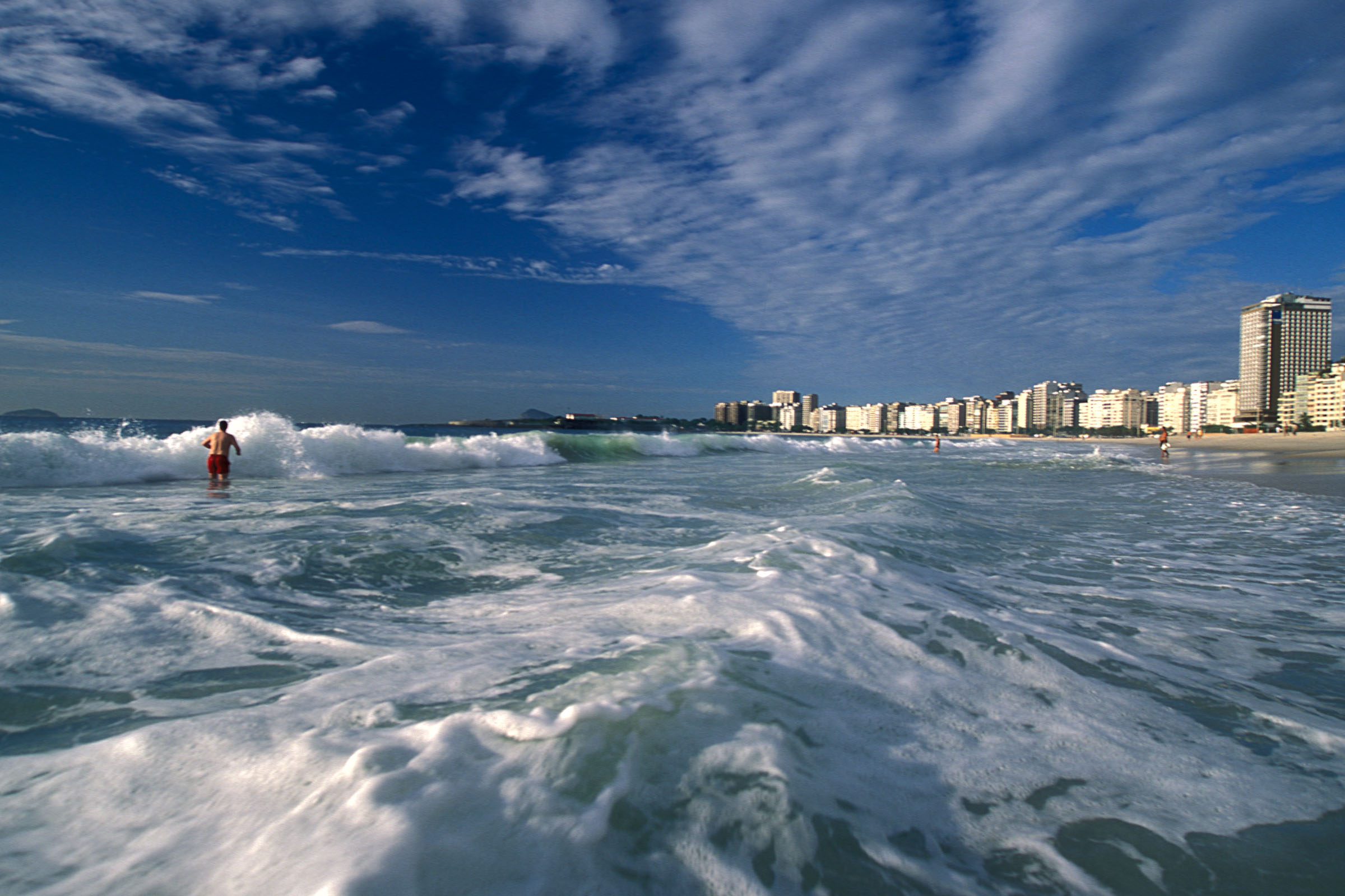 The surf at Copacabana Beach Rio de Janeiro